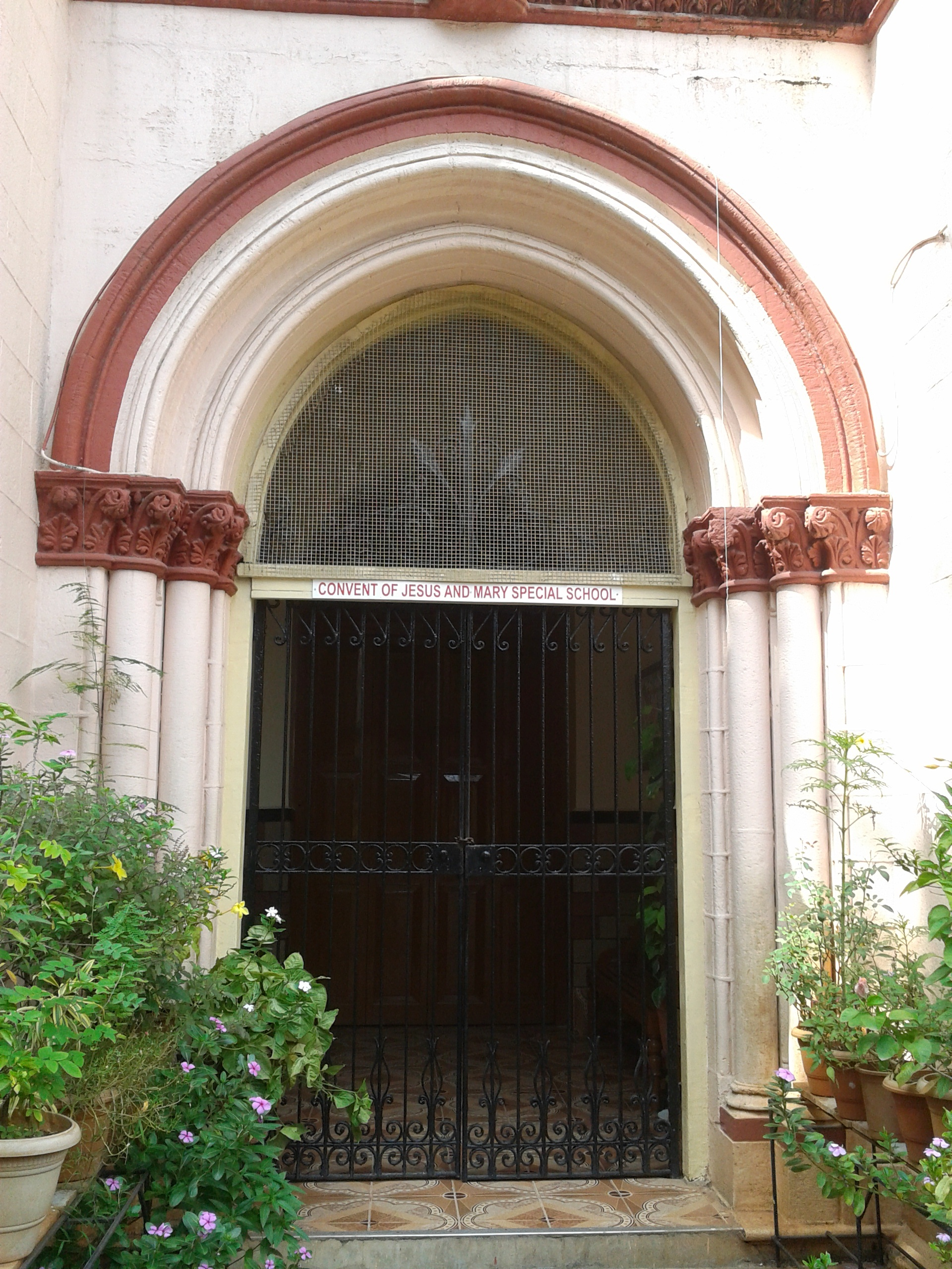 Entrance to the St. Agnes Special School, Byculla Mumbai.